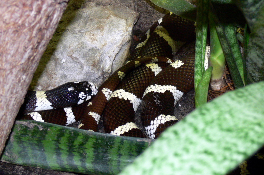 Lampropeltis getula californiae taken at the Tierpark Berlin, Germany